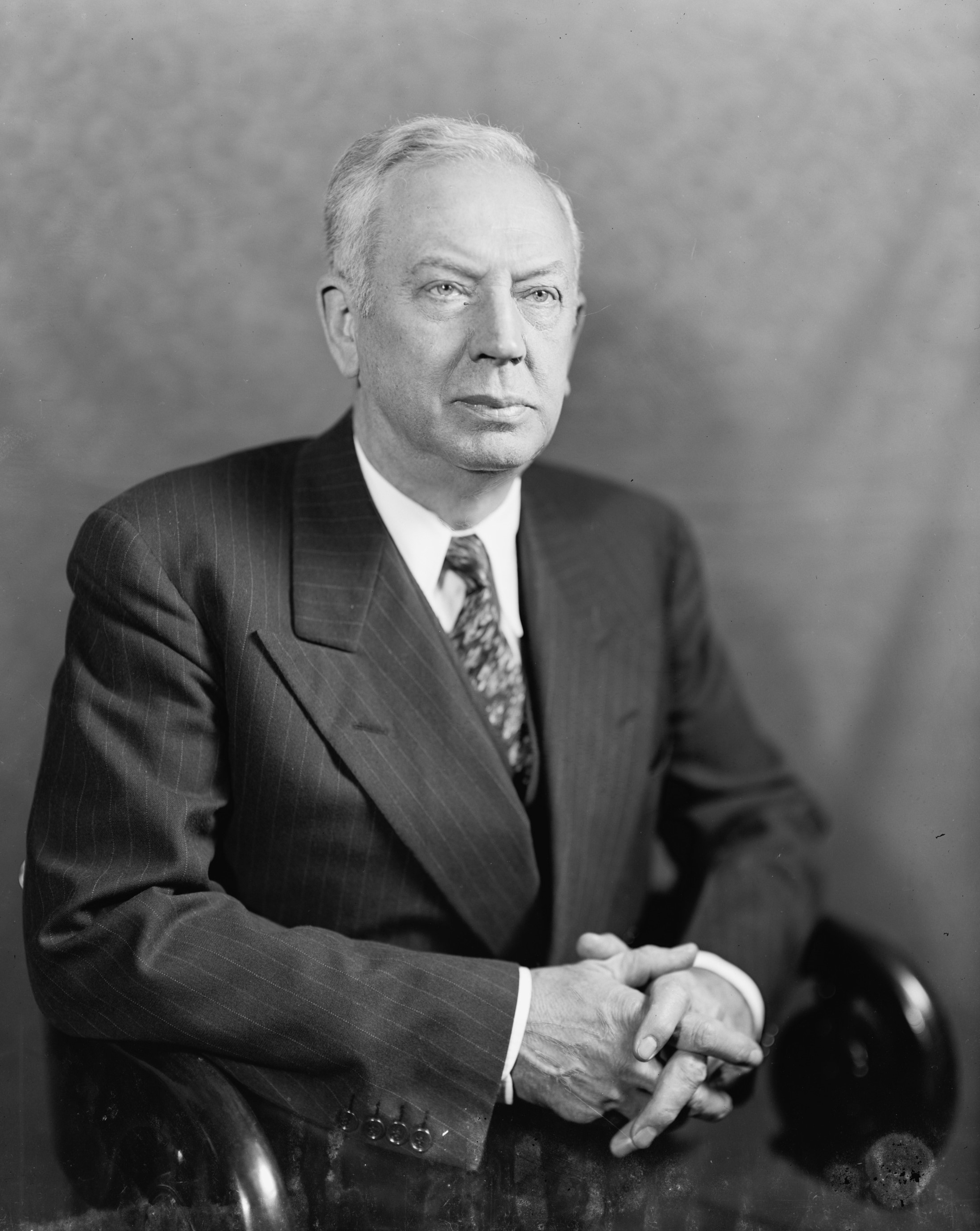 Edward Martin, US Senator from Pennsylvania and Governor of that state.